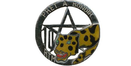 Regimental badge of the 10th regiment of Moroccan riflemen.